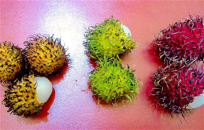 Rambutan bought in Cagayan de Oro, Mindanao, Philippines. The fruit of all three colors were ripe and ready to eat when this photo was taken, and very similar in taste.